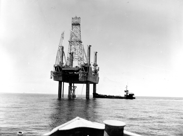 C. G. Glasscock Drilling Company offshore mobile oil drilling platform "Mr. Gus II," in federal waters in the Gulf of Mexico off Louisiana, Grand Isle Block 48.